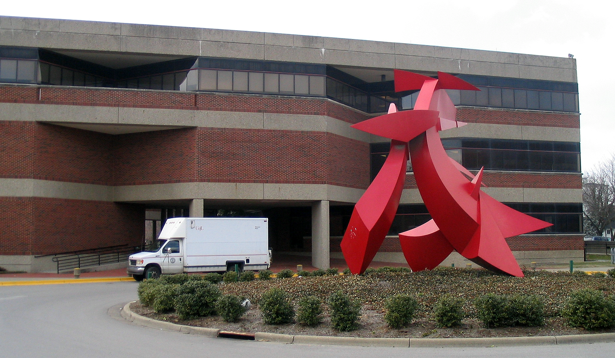 The sculpture "Big Red", by Thomas Lear, stands in front of the Business School at U of L.